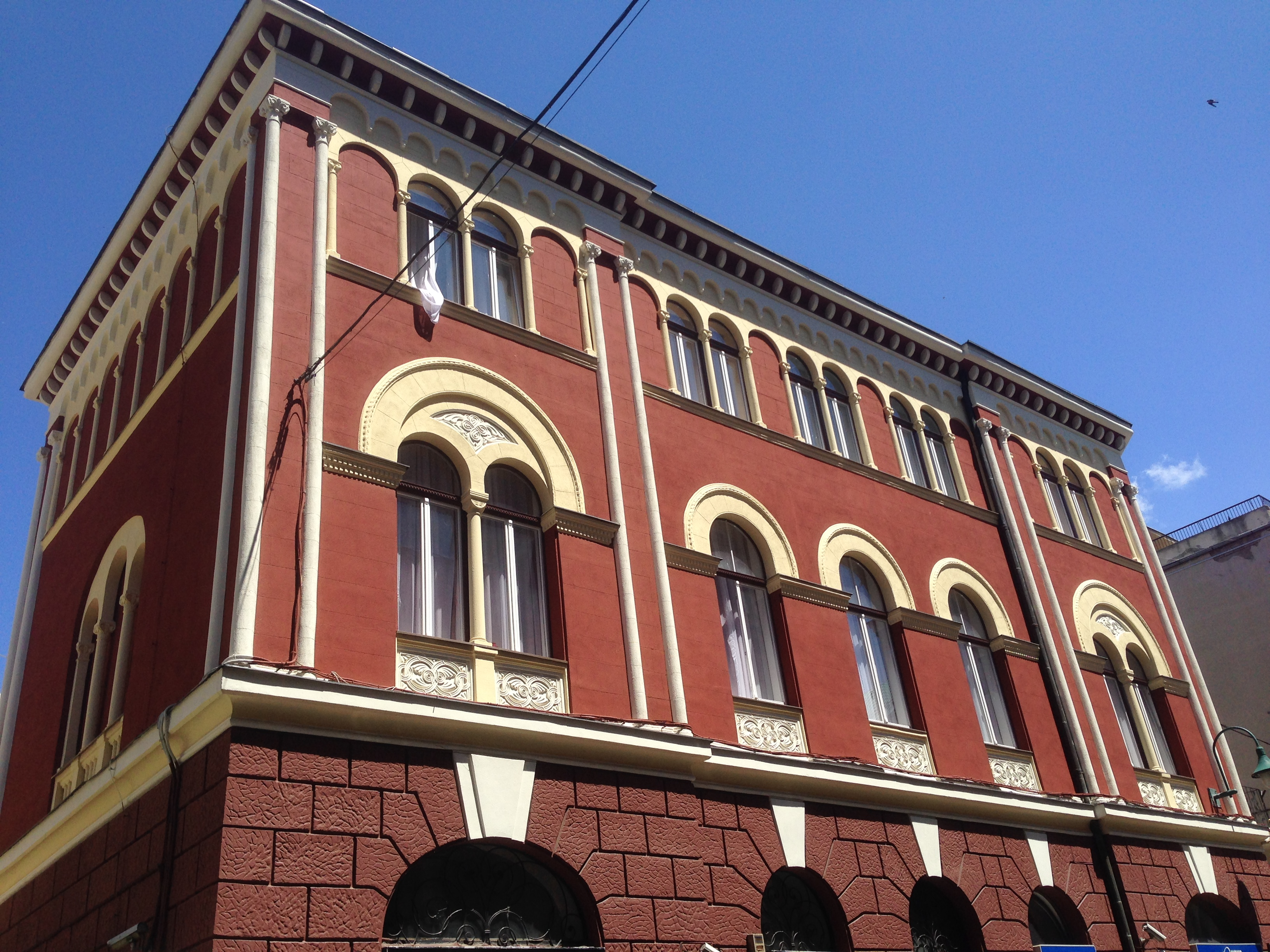 The Metropolitanate of Dabar-Bosnia is a metropolis of the Serbian Orthodox Church in Bosnia and Herzegovina, seated in Sarajevo